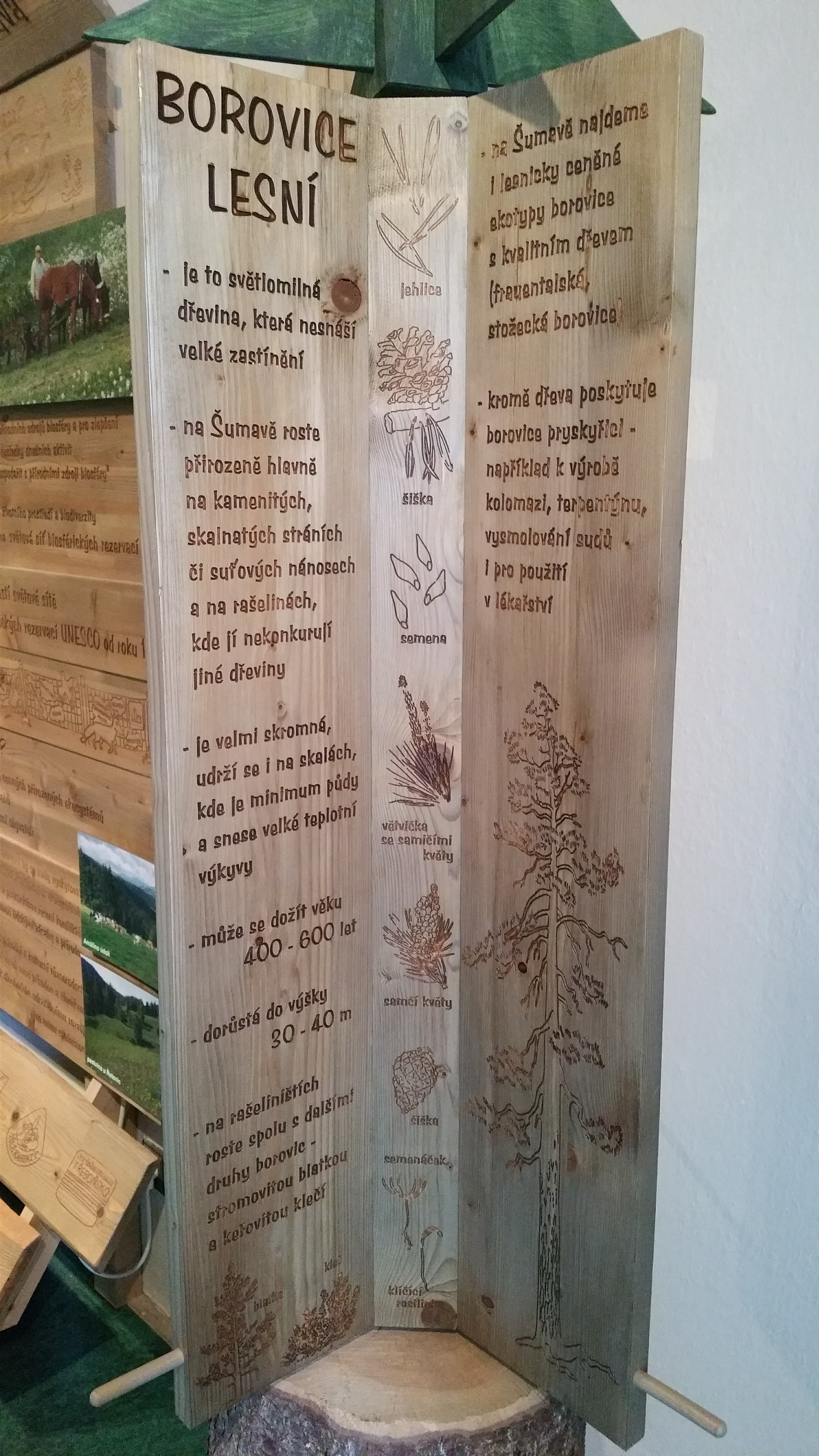 Museum of Vimperk - Šumava nature